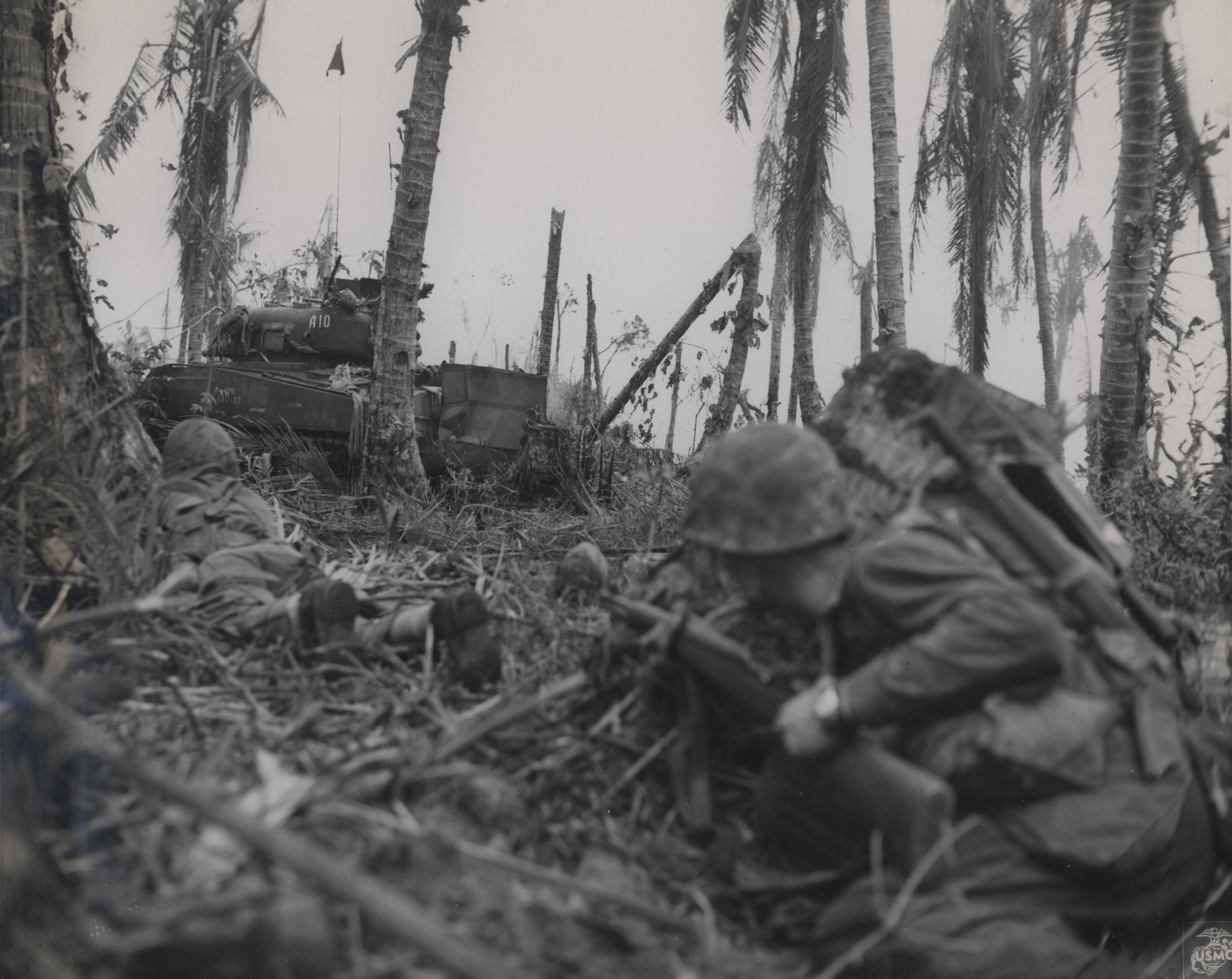 "Advance-After the beachhead had been established on Peleliu, the inland drive was under way. Here Marine infantrymen inch ahead on their bellies to support their tanks attacking Japanese strong points." From the Photograph Collection (COLL/3948), Marine Corps Archives & Special Collections OFFICIAL USMC PHOTOGRAPH